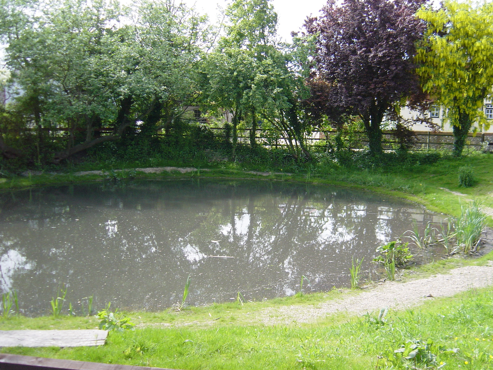 Clanfield Pond, Clanfield, Hampshire, England